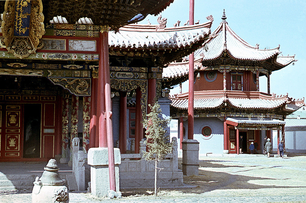 Winter Palace of the Bogd Khan, Ulan Bator, Mongolia (1972).